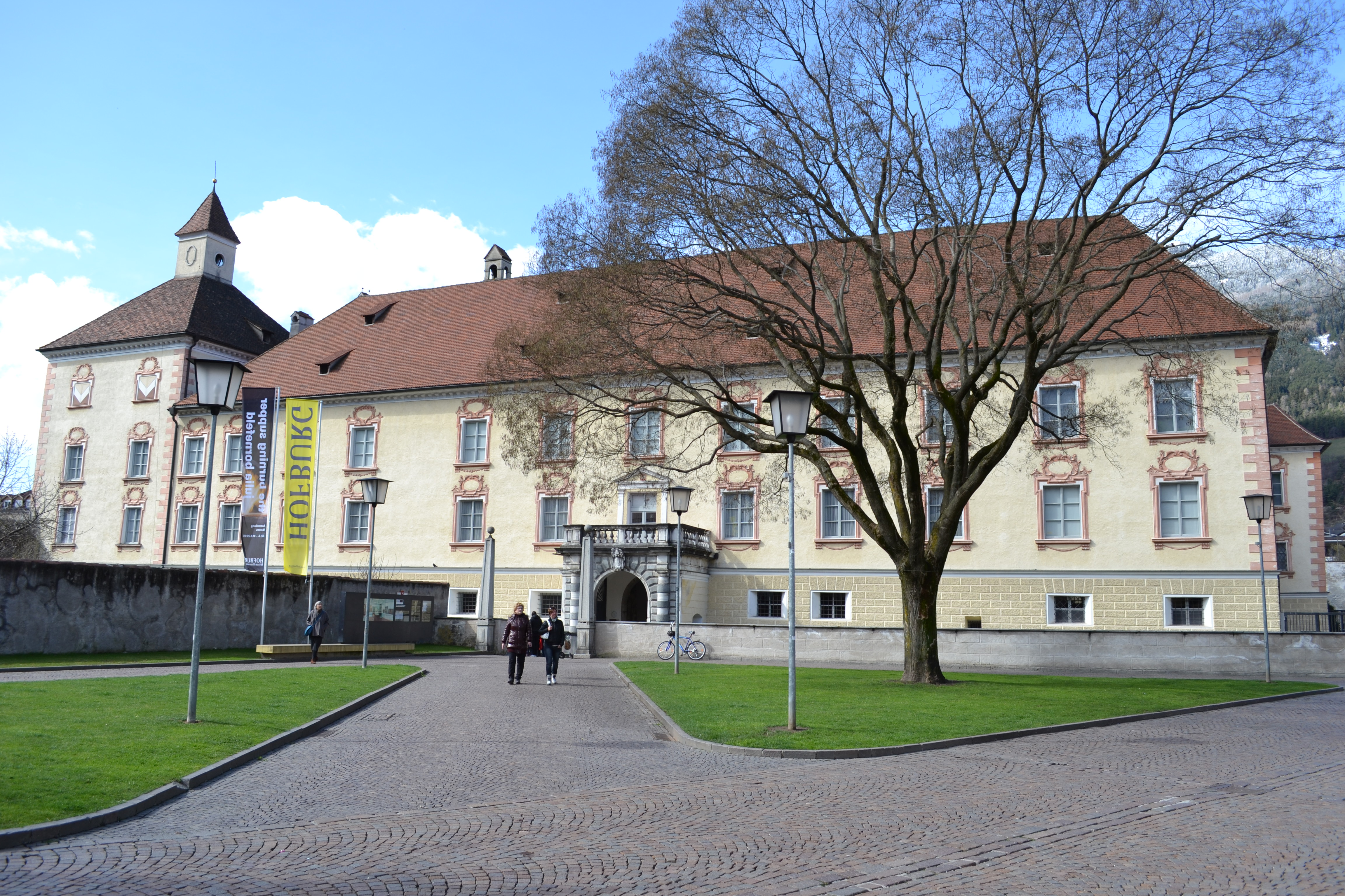 Hofburg, which was the medieval city palace of the bishops of Brixen, was built in the thirteenth century.